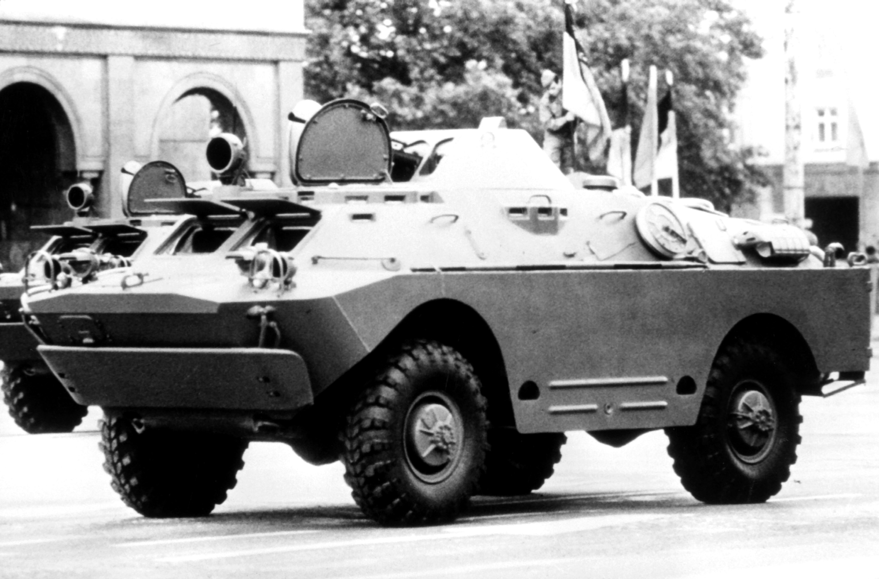 A BRDM-2 armored scout car on a military parade.